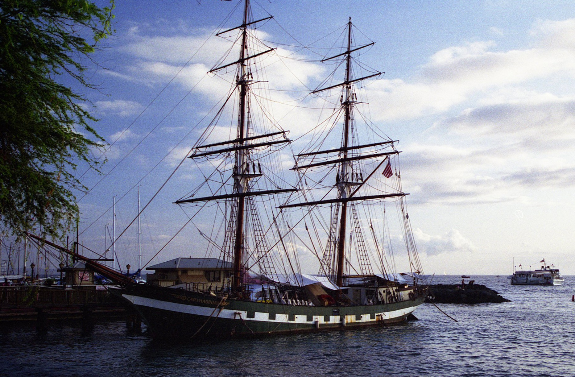 A floating whaling museum in Lahaina harbour